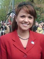 Christine O'Donnell, 2008 & 2010 Republican Candidate for United States Senator from Delaware